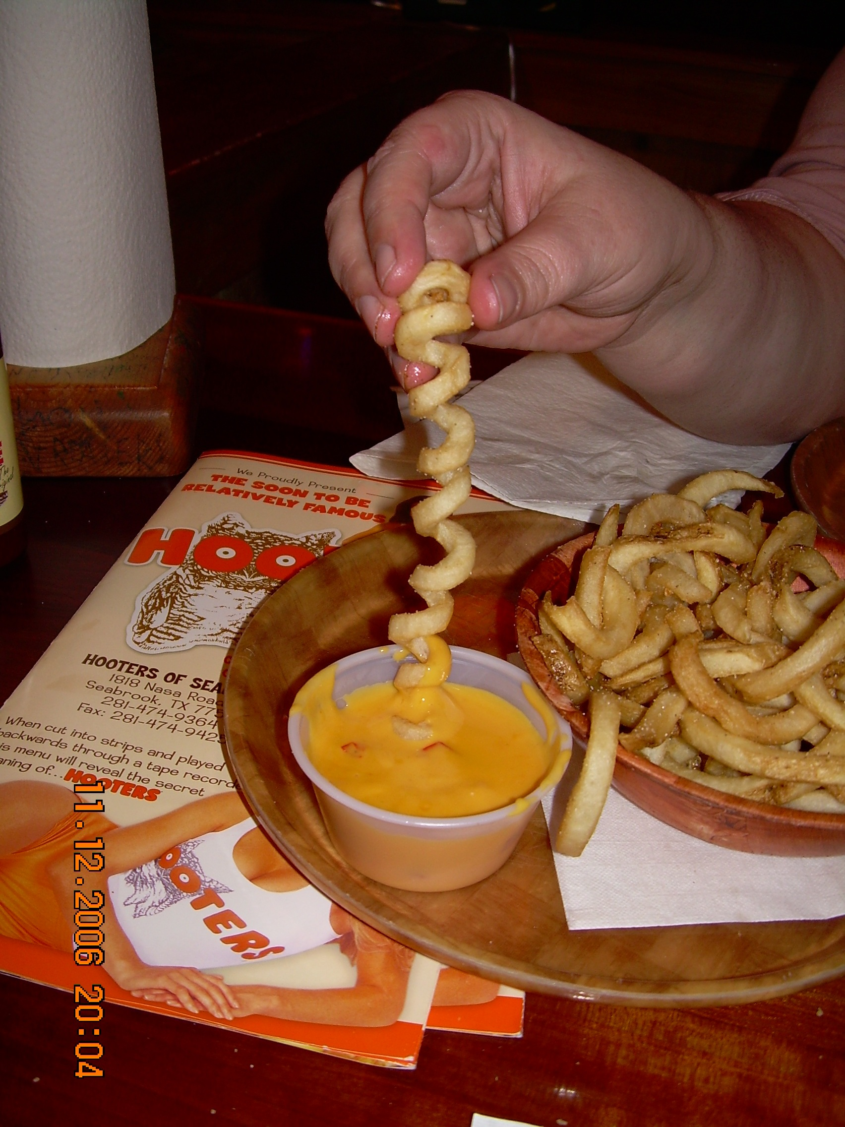 Curly Fries at Hooters